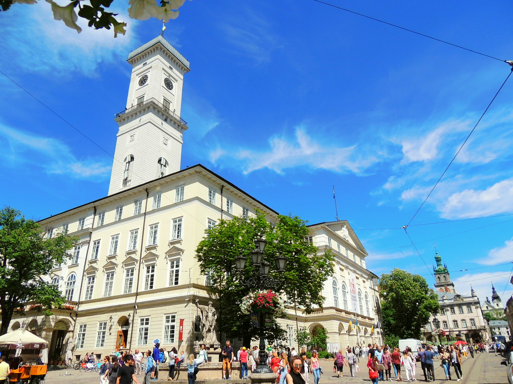 Town hall in Lviv after restoration (2018)